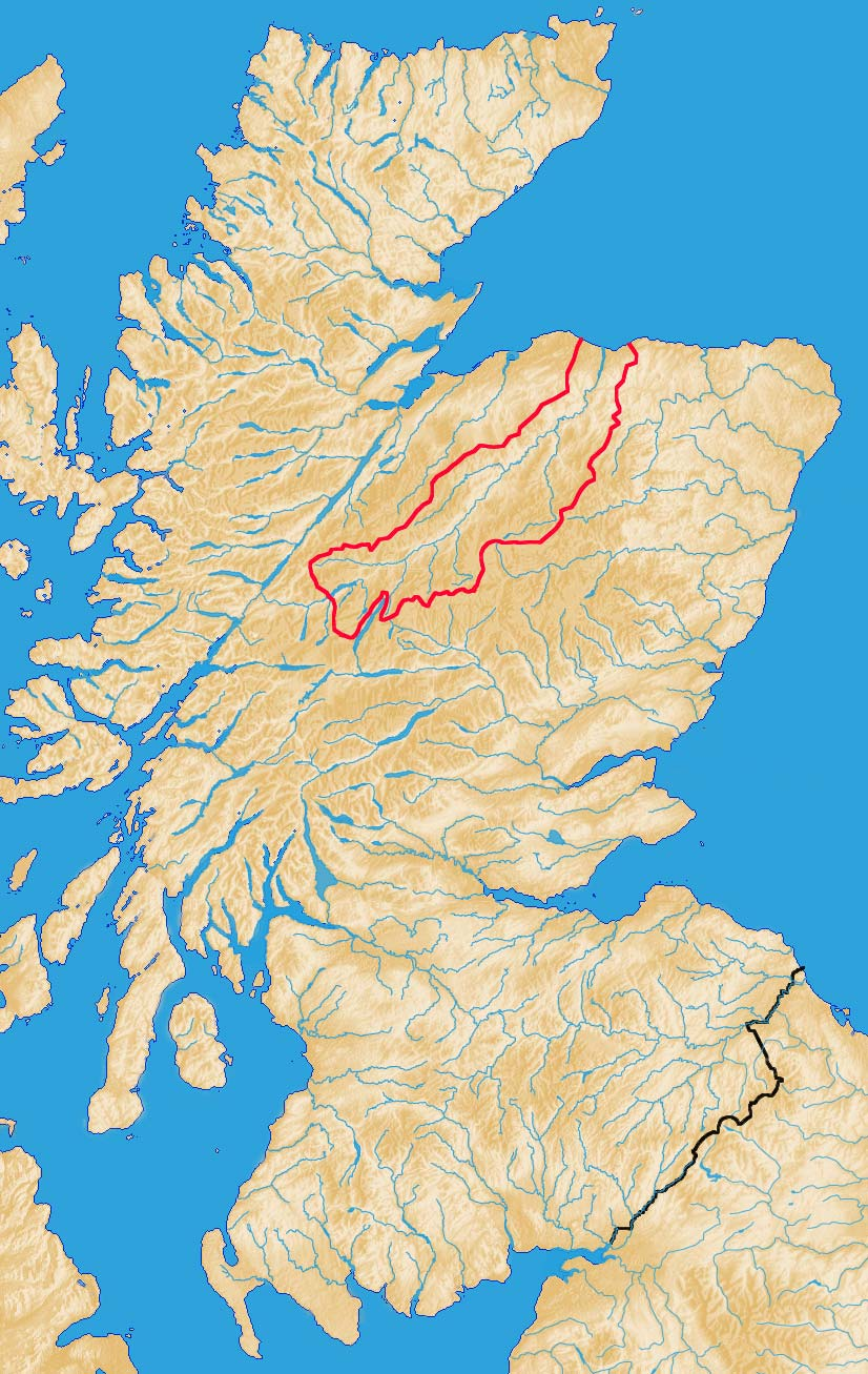 River Spey catchment within Scotland